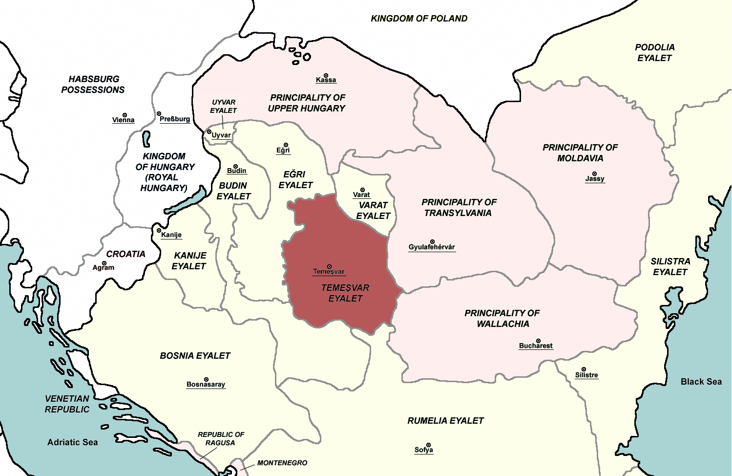 Temesvar Eyalet in 1683. Tributary states of the Ottoman Empire are shown in pink.